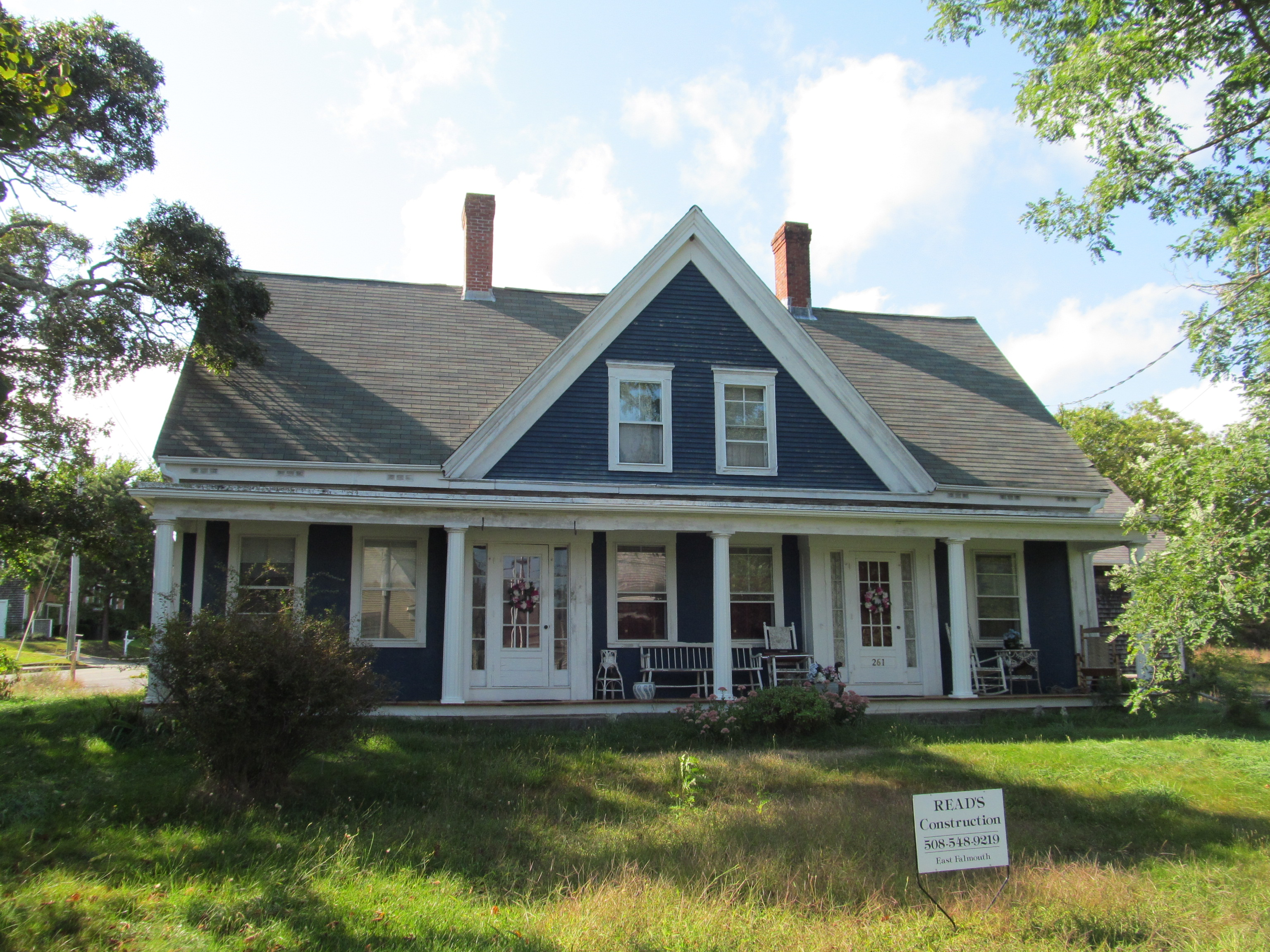 Gifford Farm, Marstons Mills Massachusetts